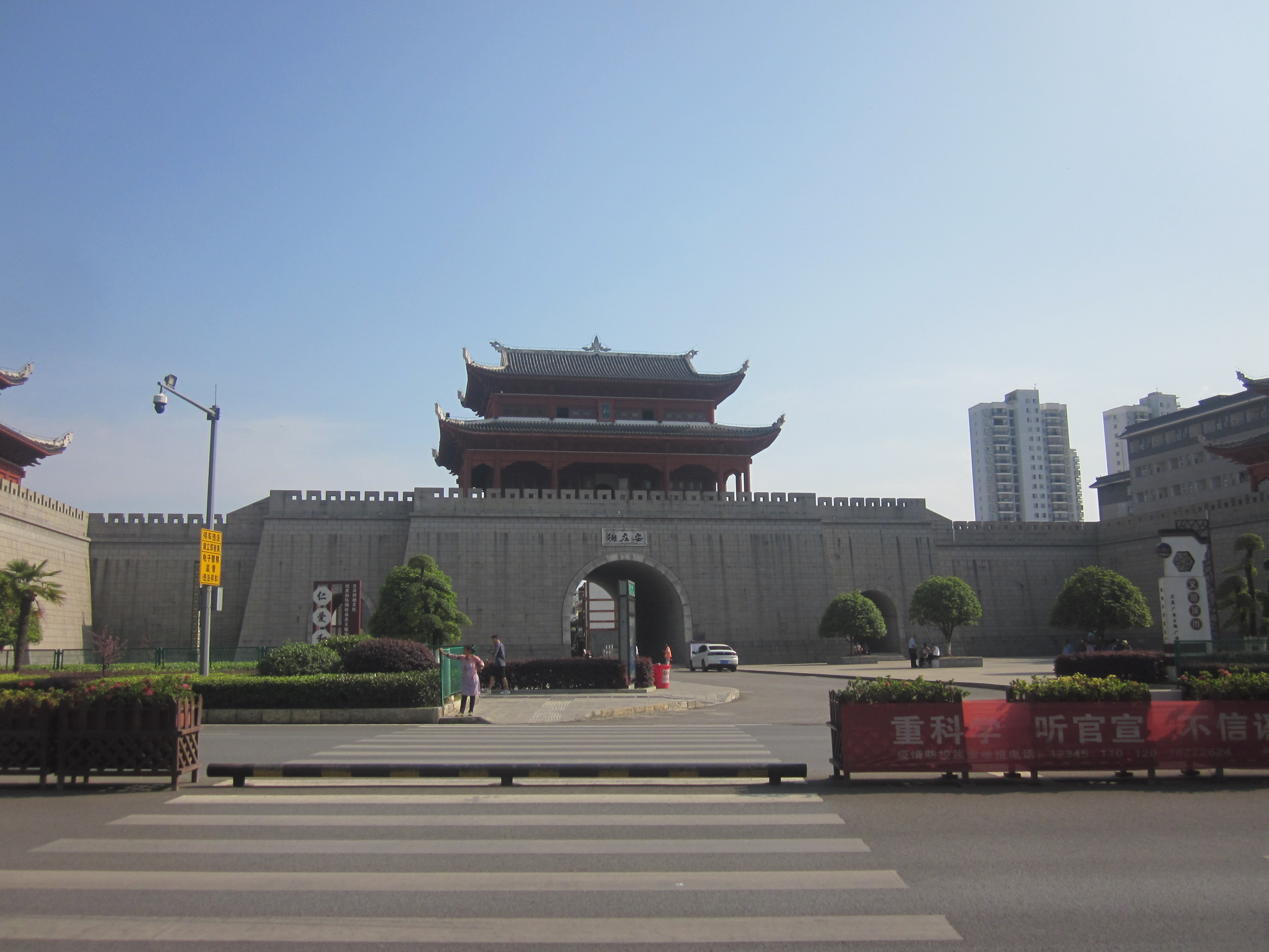 Anzhuangwei, a gate tower, in Zhenning Buyei and Miao Autonomous County, Guizhou, China.